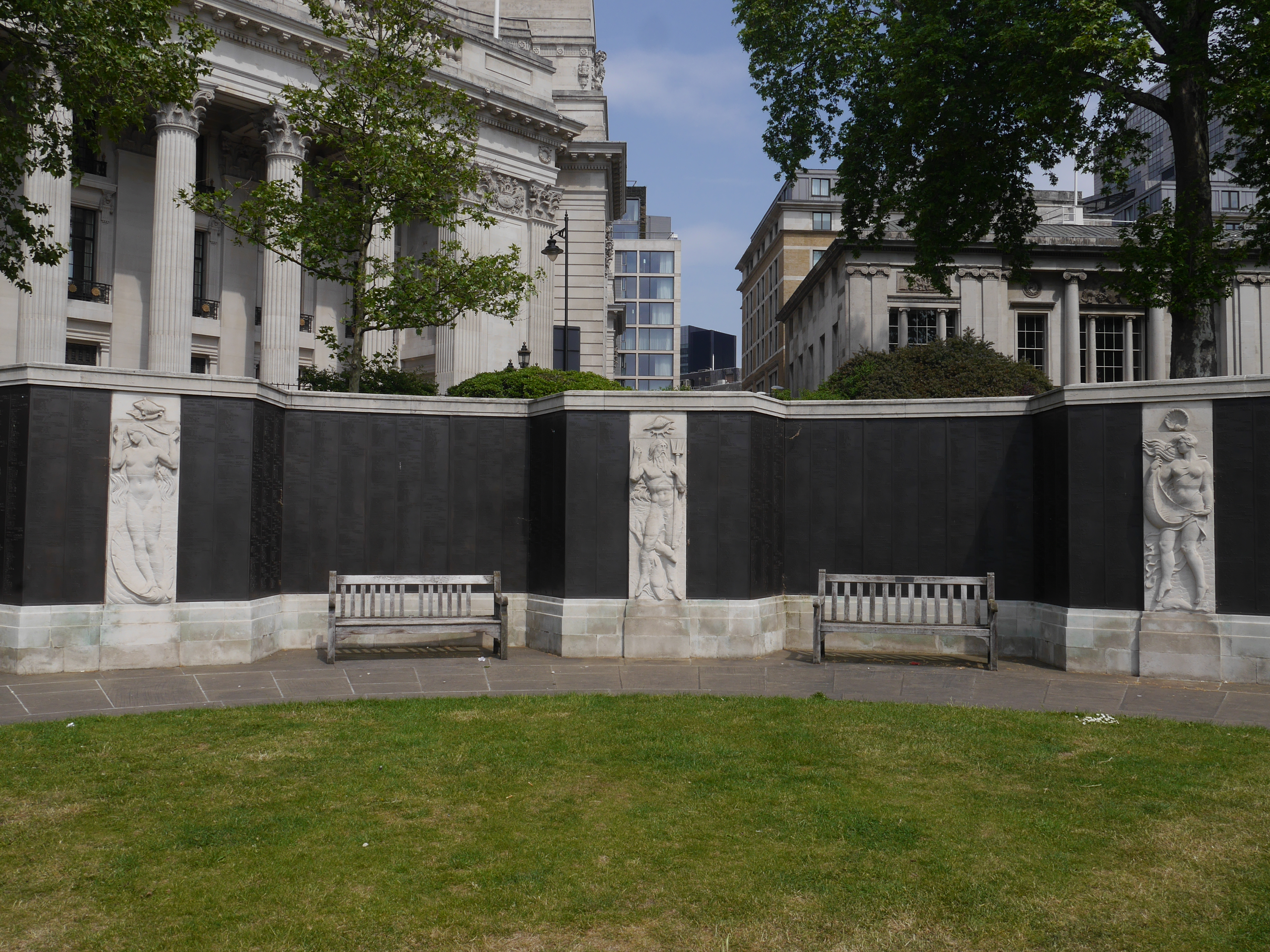 The relief sculptures by Charles Wheeler in the sunken garden at the Tower Hill memorial, commemorating the merchant mariners who lost their lives in World War II. This images shows reliefs 3, 4 and 5 (counting clockwise from the west).